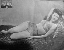 Pin-up photo of Yvonne DeCarlo for the Jun. 9, 1944 issue of Yank, the Army Weekly, a weekly U.S. Army magazine fully staffed by enlisted men.